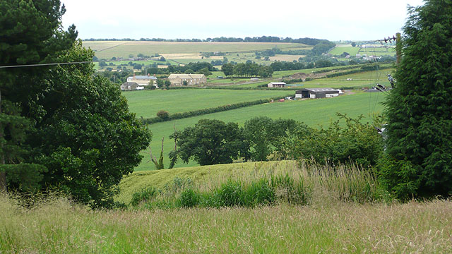 Stainborough Fold viewed from Stainborough Castle Looking across the fields to the recently renovated Stainborough Fold which has been turned into housing.